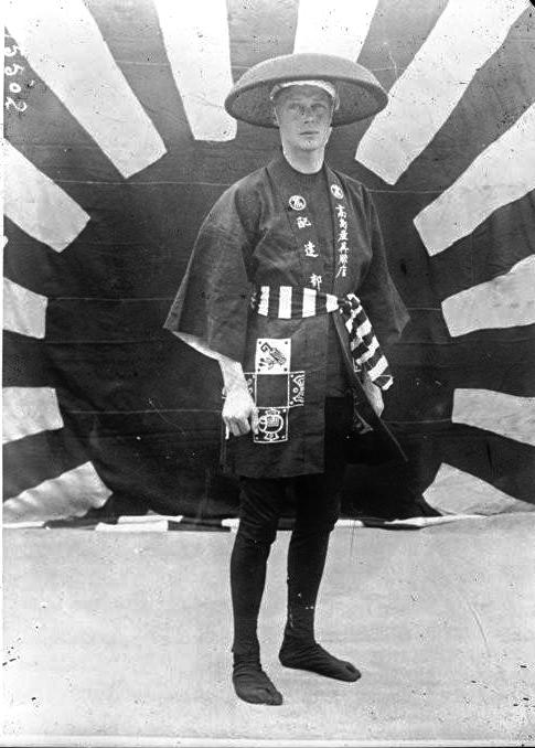 Edward, Prince of Wales bought the coat (Happi) himself in Kyoto during his visit to Japan in 1922 and disguised himself as a ricksha man at a party.